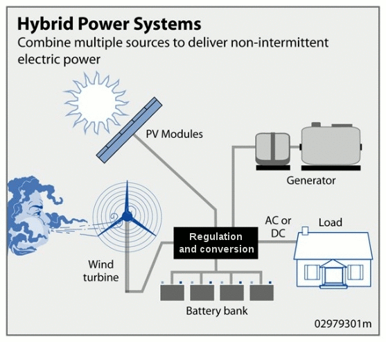 A hybrid wind and solar power system. Because the peak operating times for wind and solar systems occur at different times of the day and year, hybrid systems are more likely to produce power when you need it.